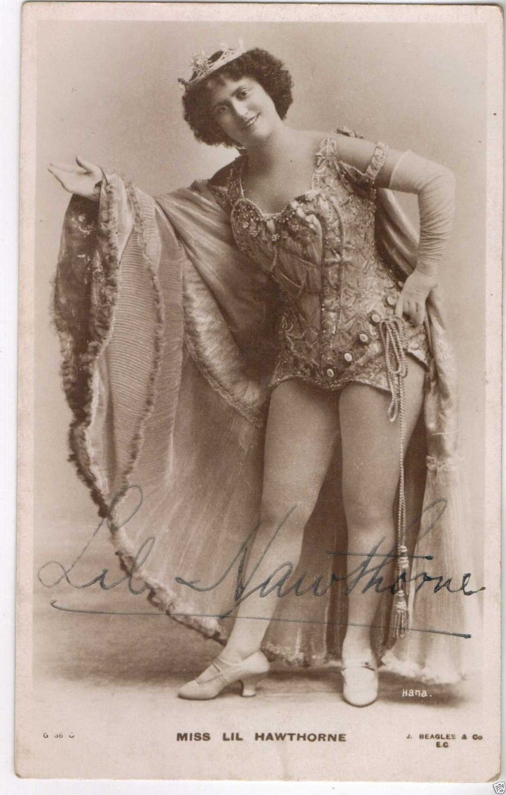 Postcard of Lil Hawthorne (1877-1926)